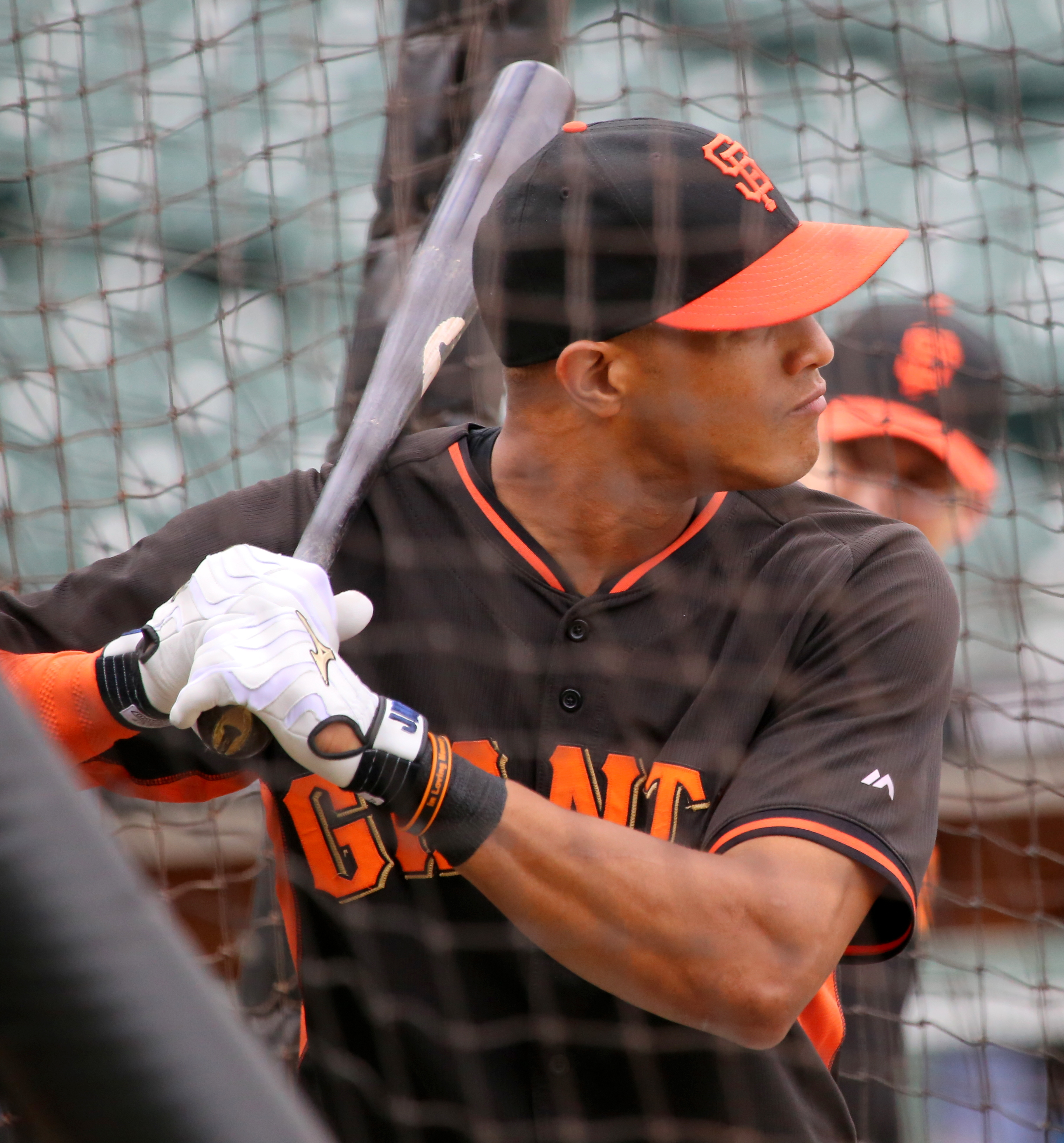 Justin Maxwell. Taken on May 20, 2015 Commons upload by UCinternational (talk) 12:02, 29 May 2015 (UTC)